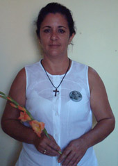 Alejandrina García de la Riva, Ladie in White, the wife of de cuban political prisoner Diosdado González Marrero.